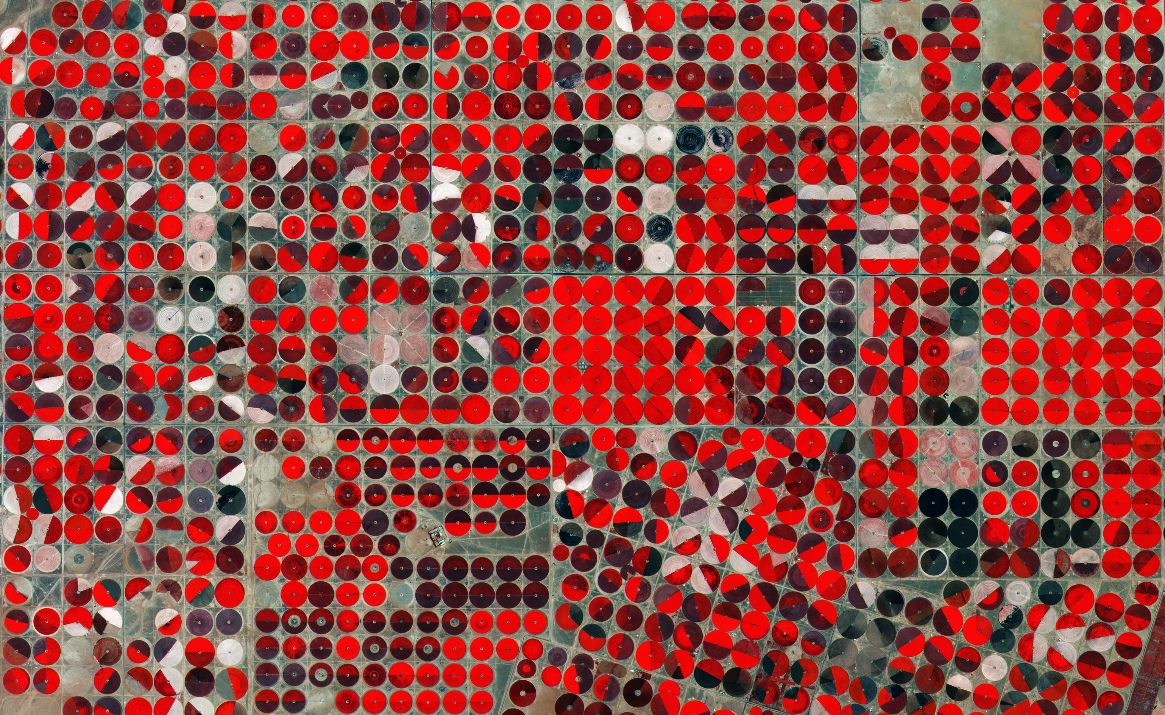 This false-colour image from the Sentinel-2A satellite shows agricultural structures near Tubarjal, Saudi Arabia. Circles come from a central-pivot irrigation system, where the long water pipe rotates around a well at the centre.